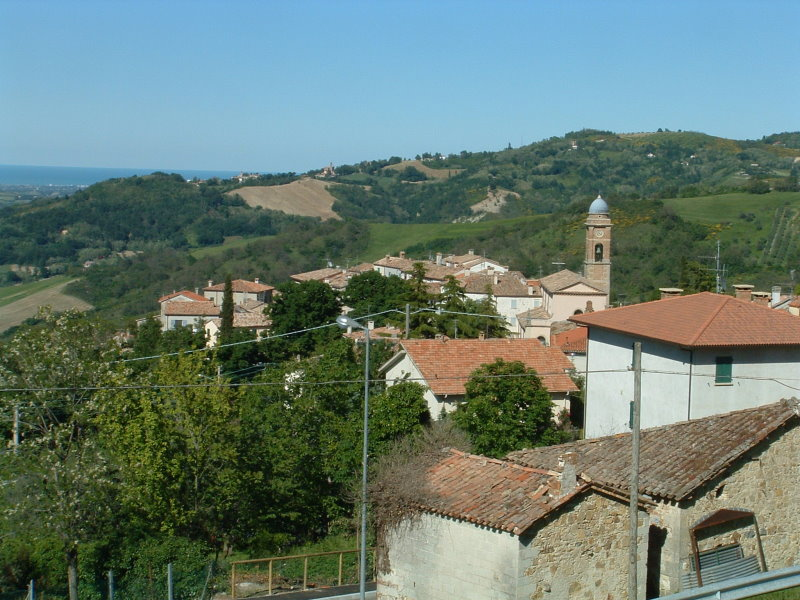 Montegiardino